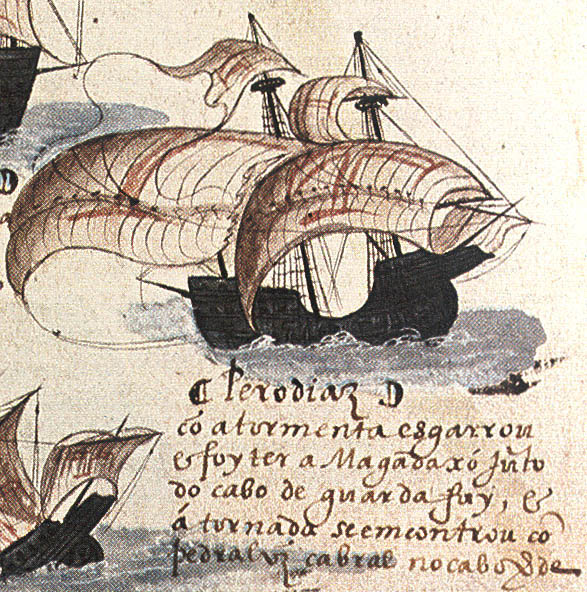 Diogo Dias's ship, detail from depiction of the 2nd Portuguese India Armada (fleet of Pedro Alvares Cabral, 1500) from the Livro das Armadas (Academia de Ciencias de Lisboa)